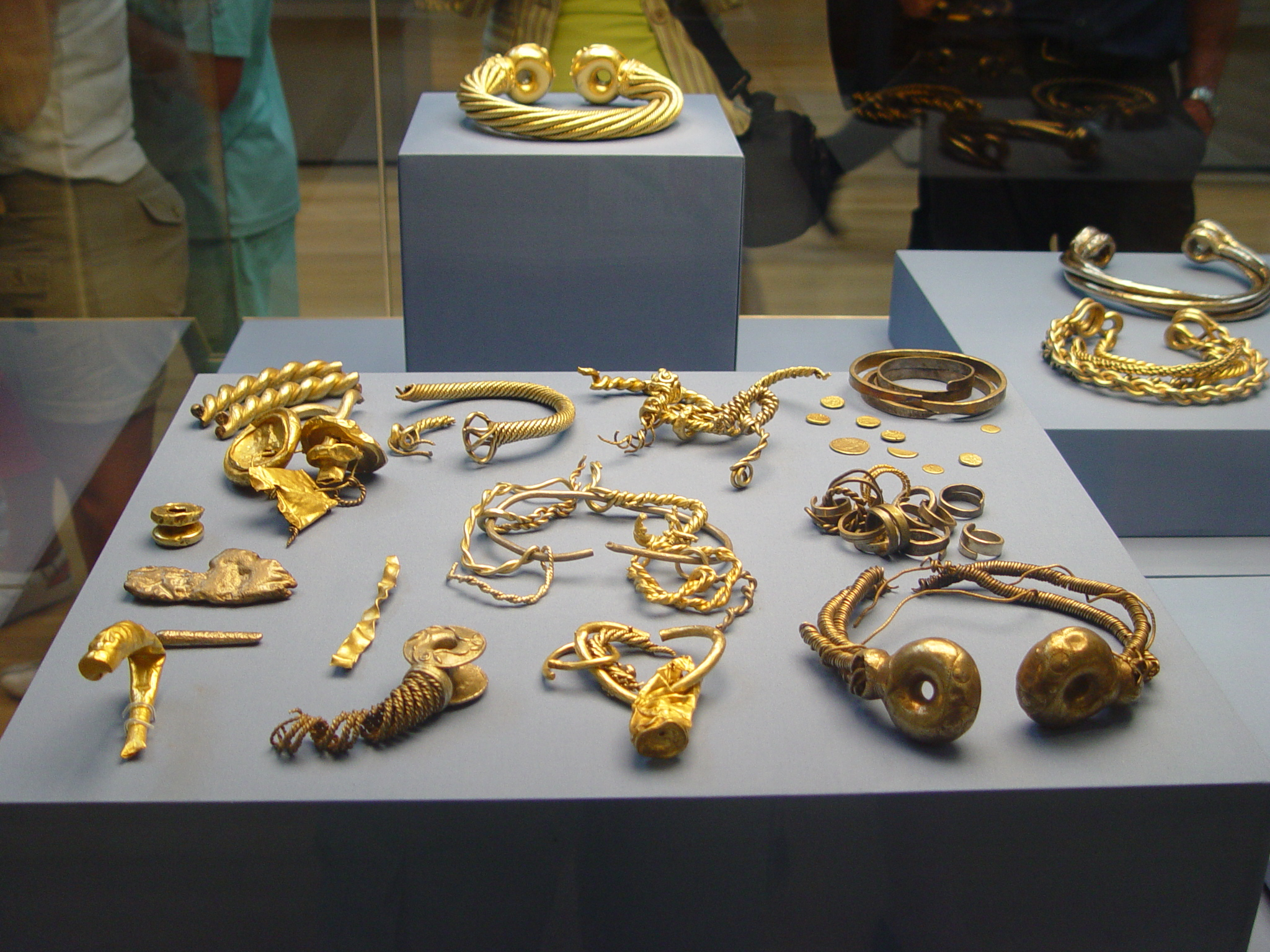 Snettisham Hoard Iron Age c.75 BC This hoard made up of 20 gold and silver torcs (rigid circular necklaces) was found in Snettisham, Norfolk. They are made from twisted strands of solid gold and silver wire and had been deliberately buried in a pit after several years of heavy use. Photo by Helen Etheridge.